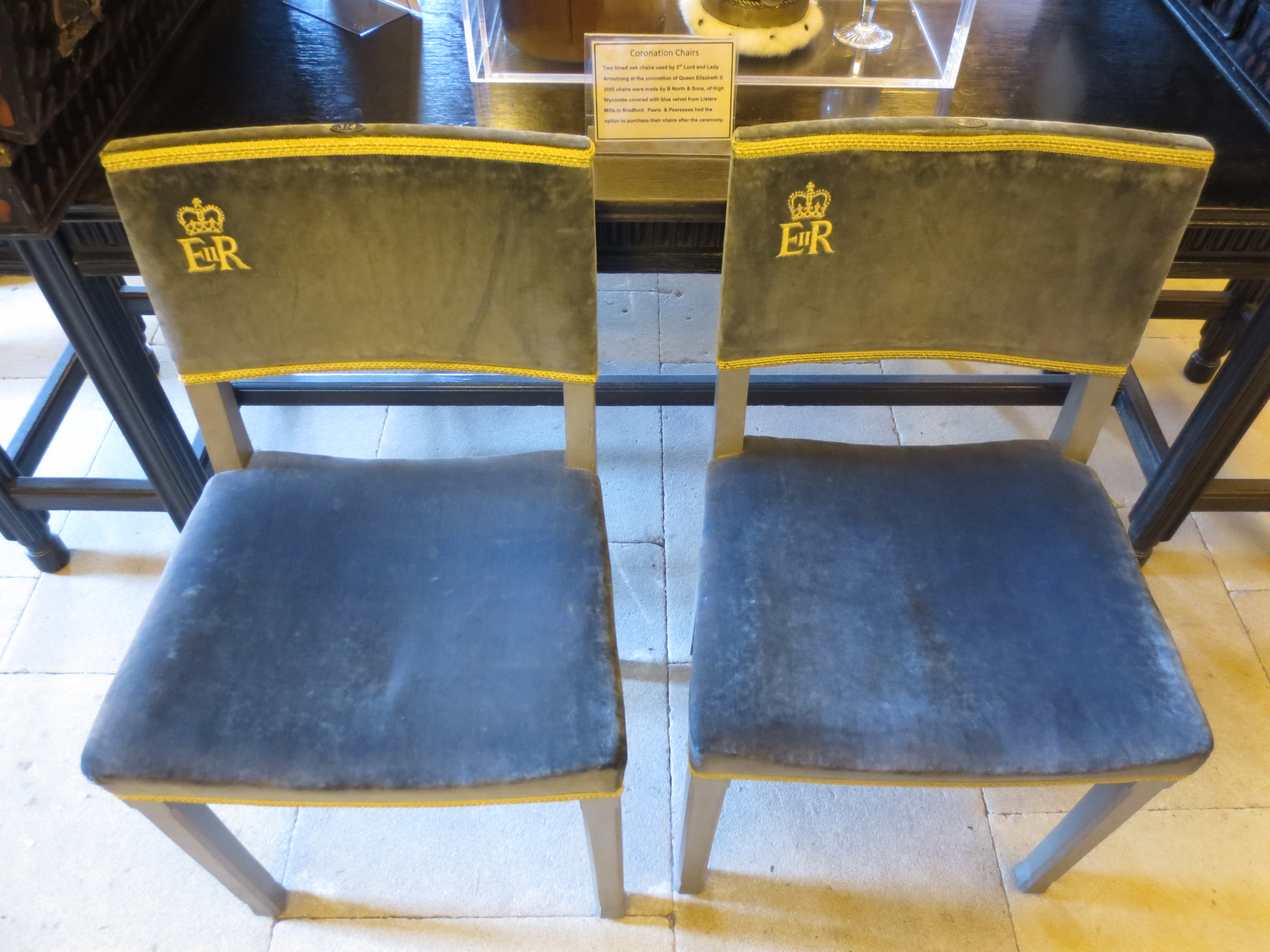 Two limed oak chairs used at the coronation of Queen Elizabeth II. The chairs were made by B North and Sons, of High Wycombe covered with blue velvet from Listers mills in Bredford. This chairs are owned by 3rd Lord and Lady Armstrong.